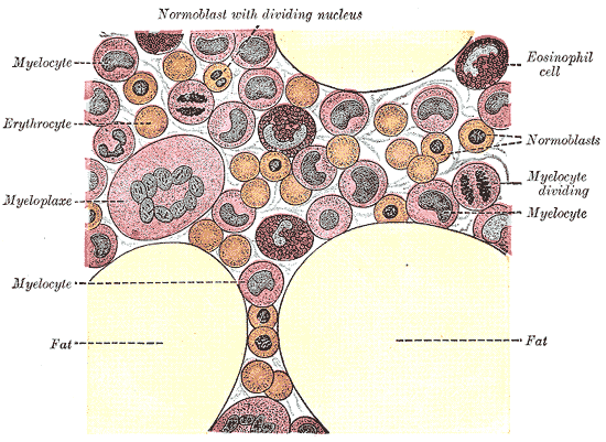 Human bone marrow. Highly magnified.